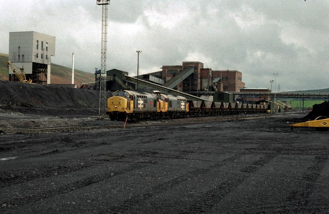 A pair of British Railways Class37 locomotives load coal on to an MGR train at the already closed Abernant Colliery "super pit" in the River Amman Valley. A reminder of South Wales once great Industrial past. Coal mines such as this were once found all over. Now there are no deep mines at all in South Wales. The colliery closed in 1988, and this location has been razed to the ground and the railway removed